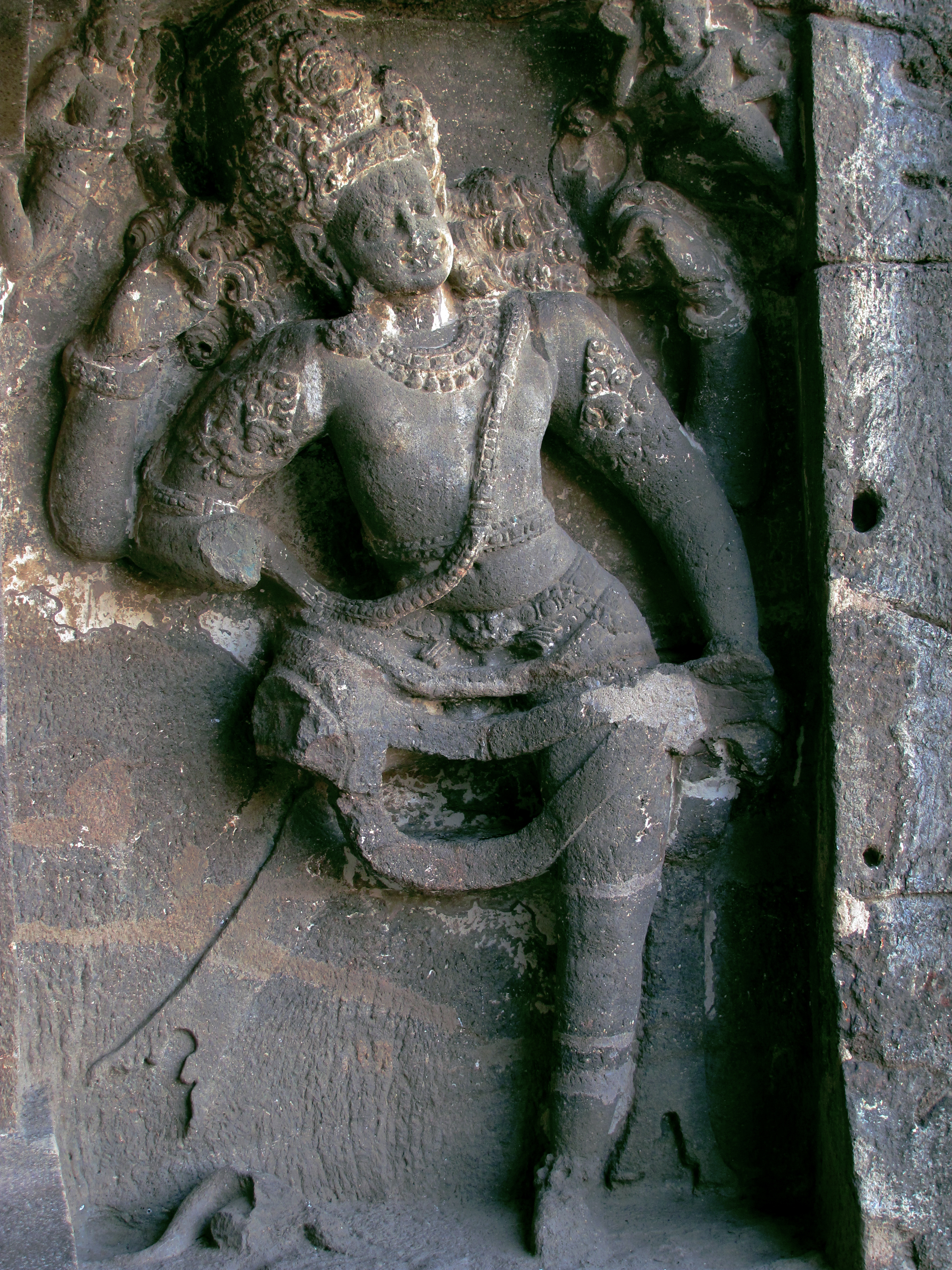 This photograph depicts one of the ten avatars of Hindu Lord Vishnu. It was taken at 'The Dashavatara', a Hindu cave(no. 15) from Ellora Caves group.